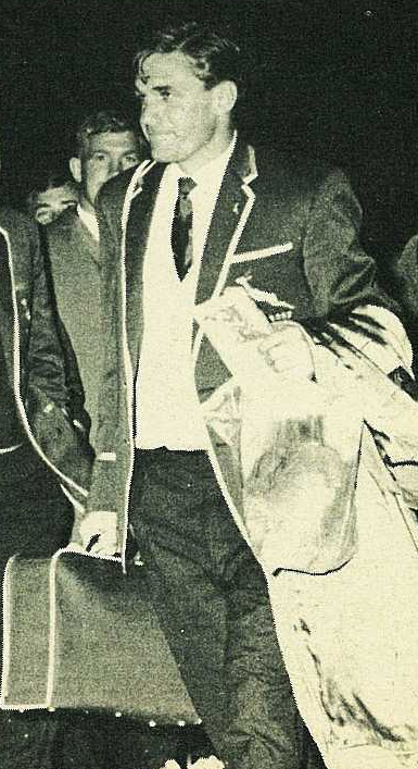 Keith Oxlee arriving with the Springbok team at Darton Field, Gisborn's airport, ahead of the Springbok match against a combined side at Blenheim, New Zealand, on South Africa's 1965 tour to Australia and New Zealand.